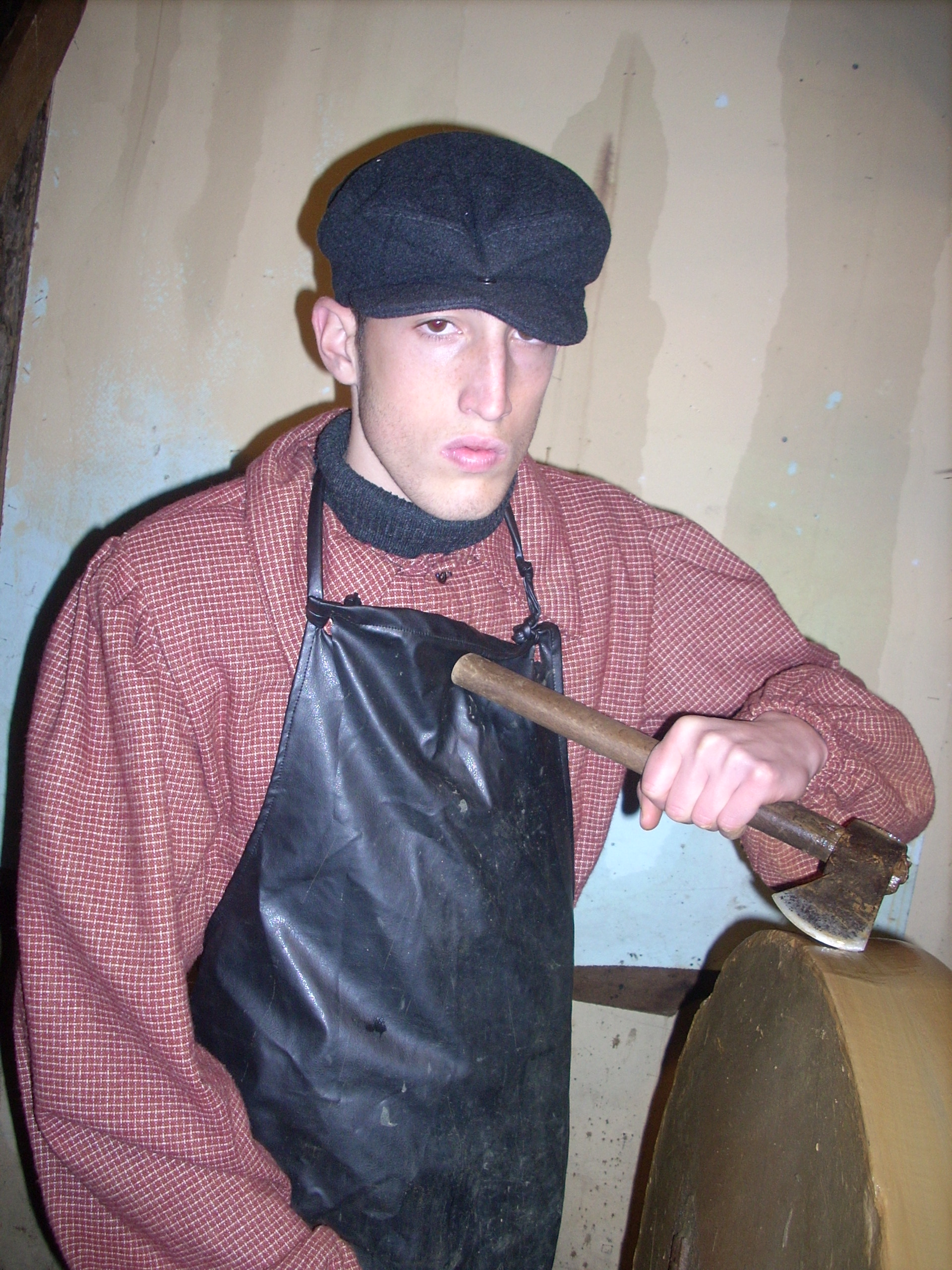 Sicilian animated crib